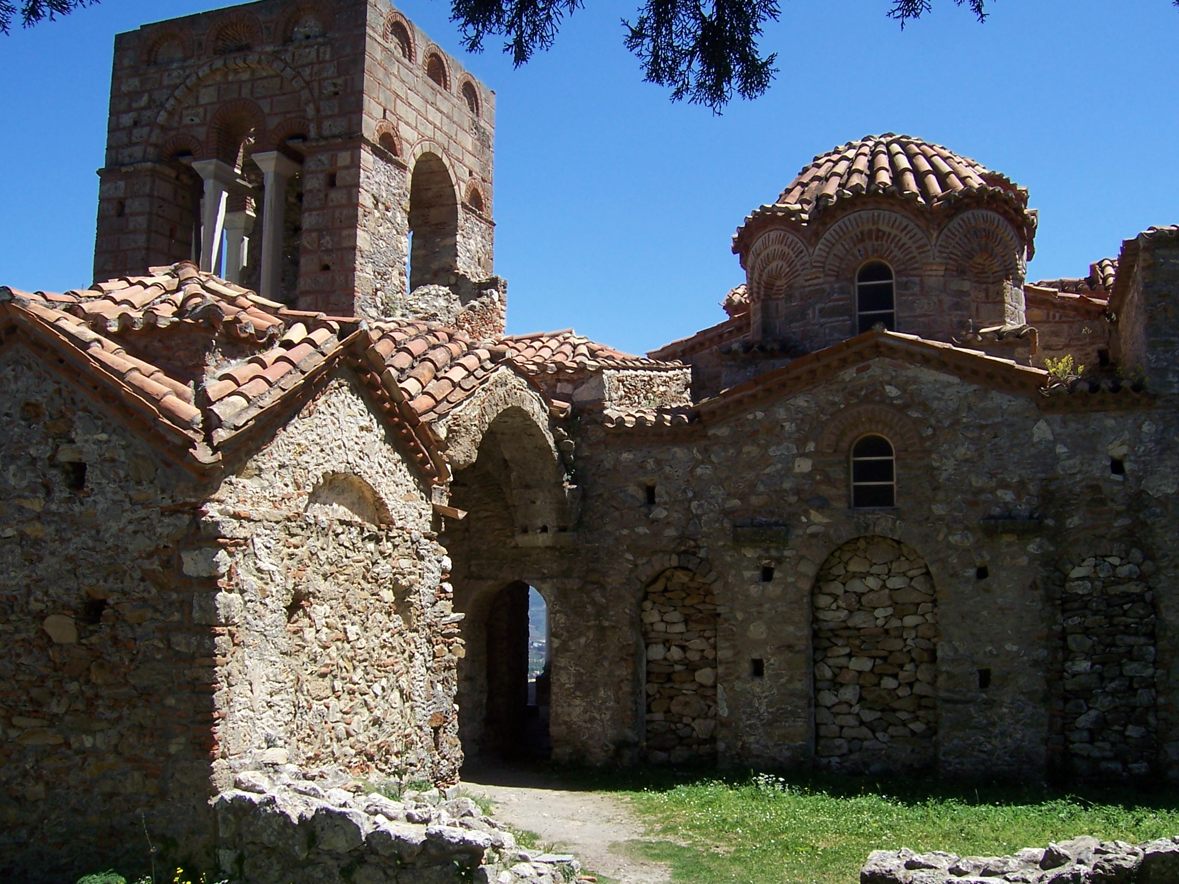 Aghais Sophia's church in Mystras.